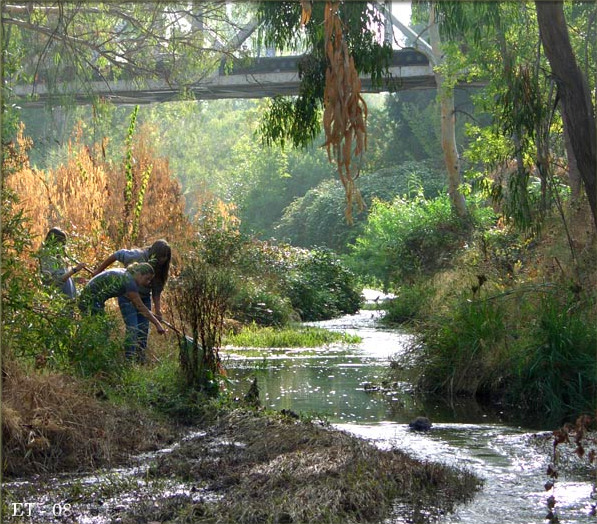 A group of Amador Valley biology students study aquatic wildlife at Arroyo del valle